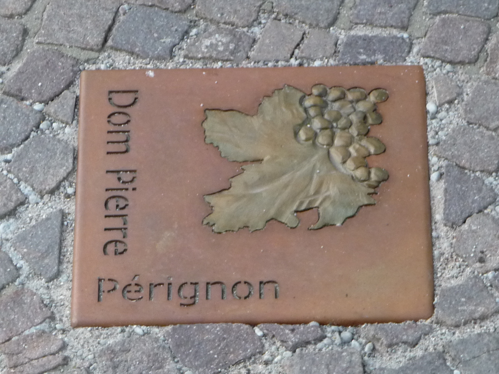 Das Deutsche Weintor in der südpfälzischen Weinbaugemeinde Schweigen-Rechtenbach (Rheinland-Pfalz) markiert seit 1936 den südlichen Beginn der Deutschen Weinstraße.